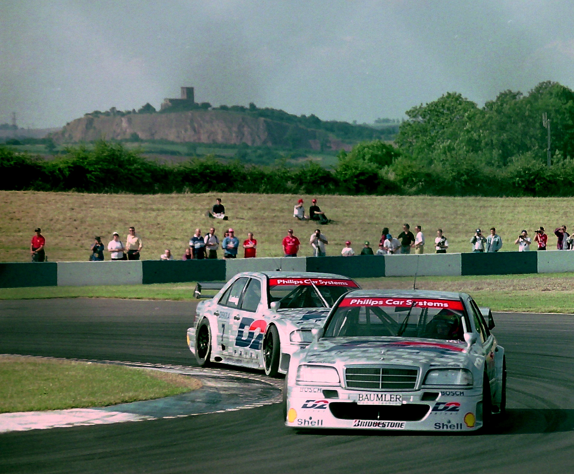 Ellen Lohr - AMG-Mercedes C Klasse leads teamate Klaus Luwig at Melbourne Hairpin